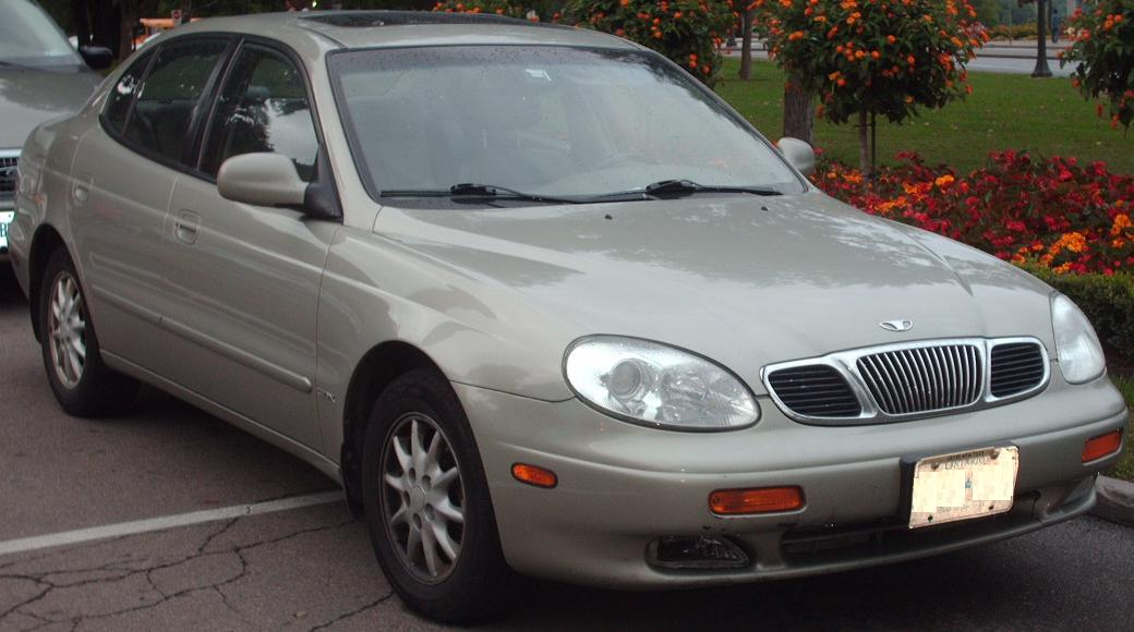 1999-2002 Daewoo Leganza photographed in Niagara Falls, Ontario, Canada.